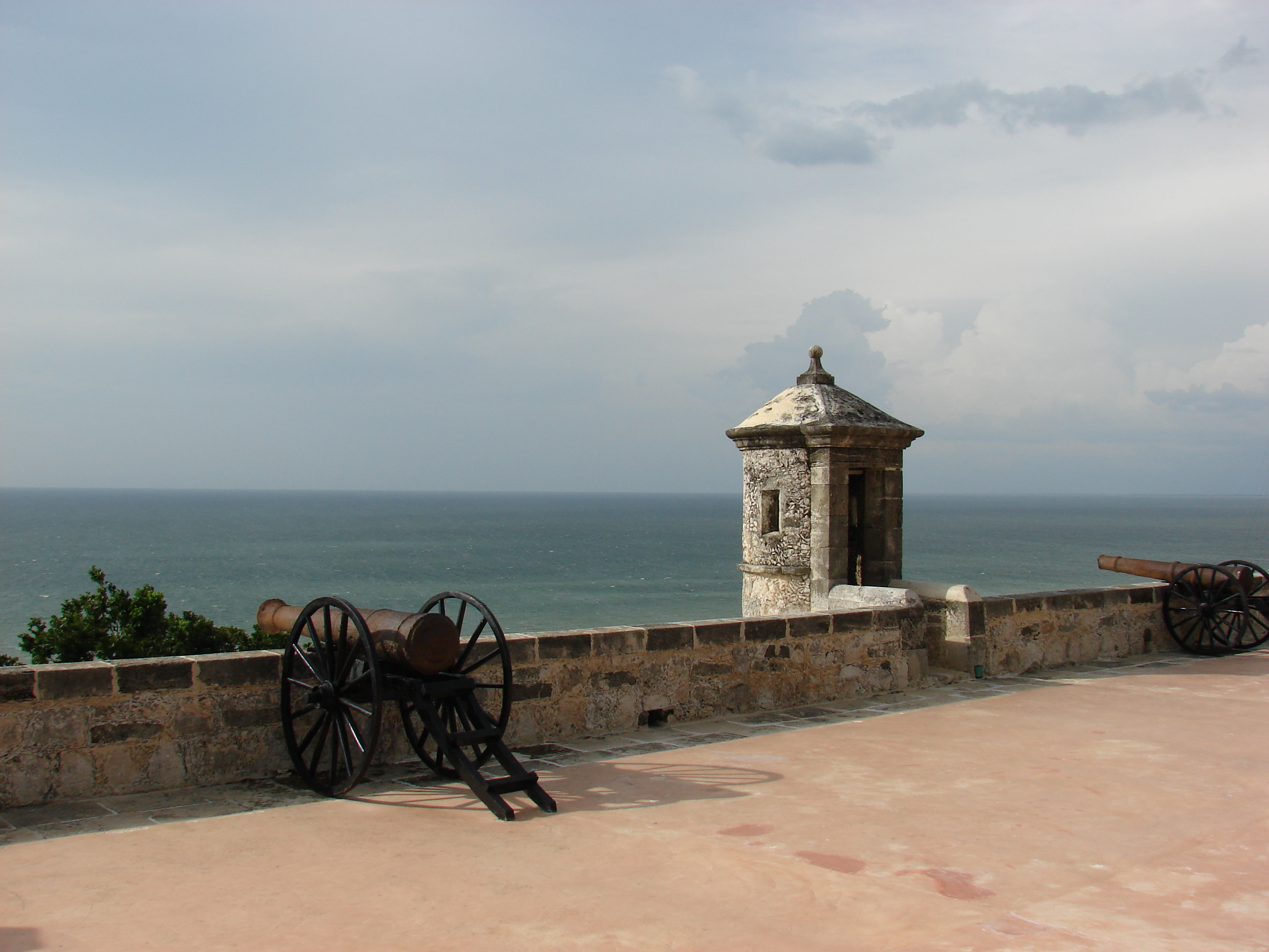 Bartizan at Fort of San Miguel — located in San Francisco de Campeche, state of Campeche.